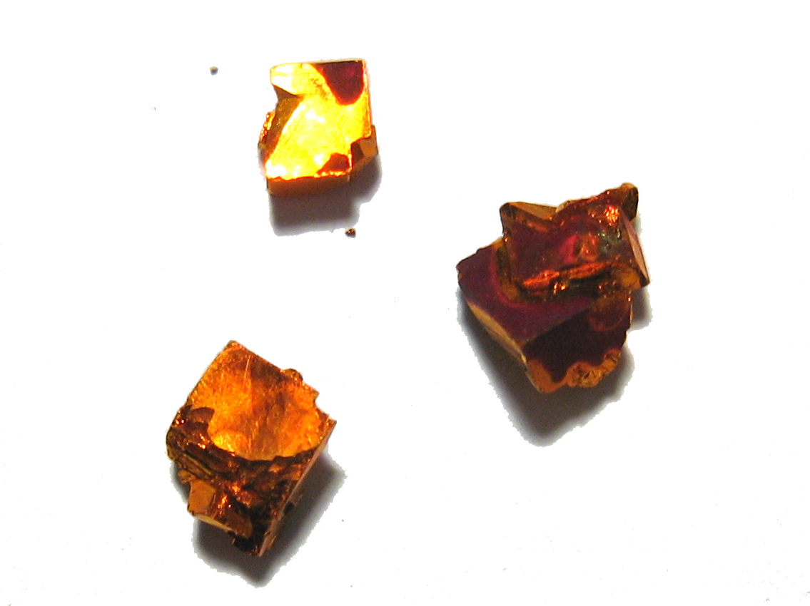 Photograph of some crystals of sodium tungsten bronze, showing their colouration and lustre. Longest crystal edge is approximately 5 millimetres in length. Purple discolouration on one crystal is due to a different sodium ion concentration in that region.